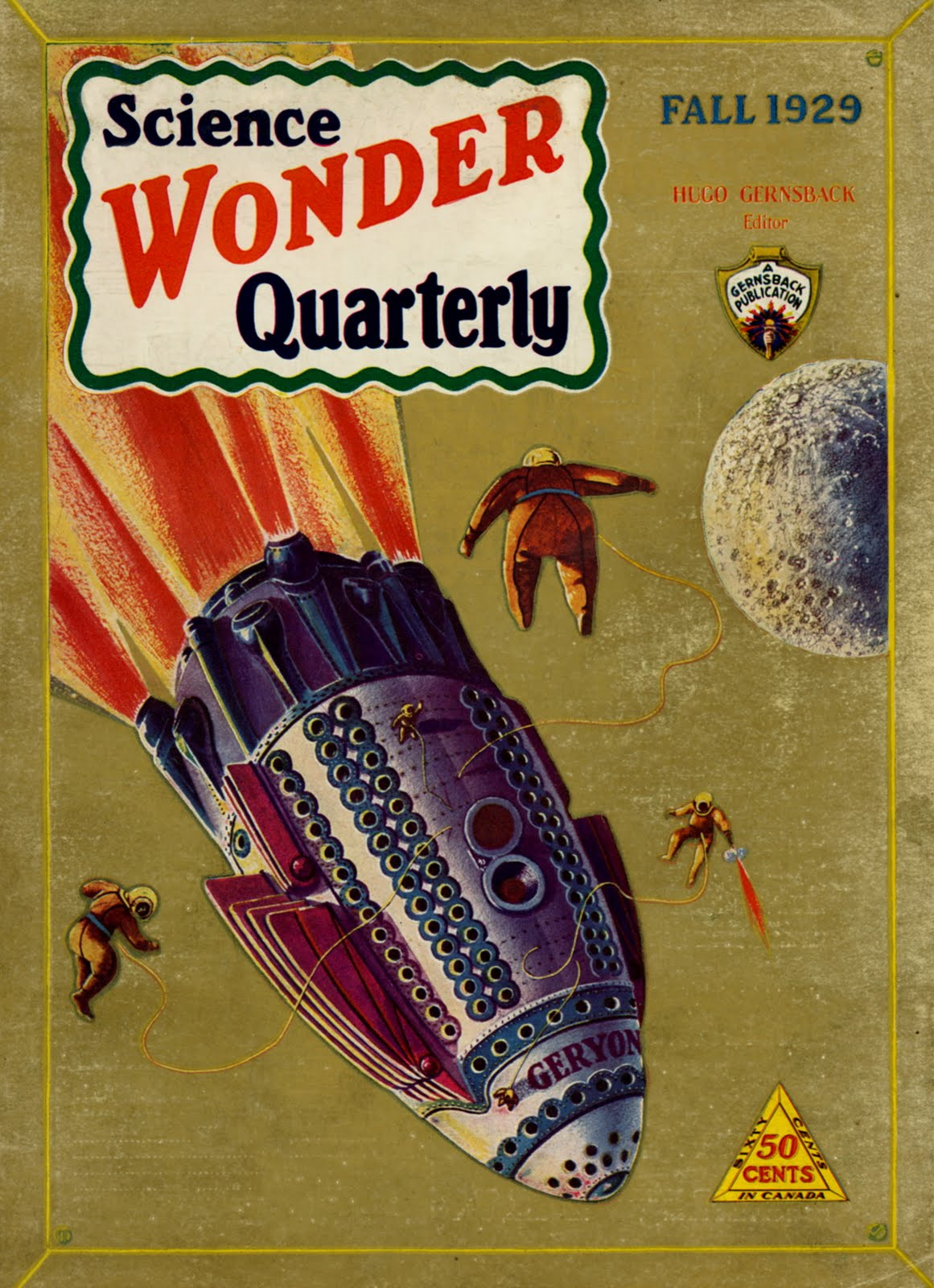 Cover of the Fall 1929 issue of Science Wonder Quarterly. Original copyright holder would have been either the artist, Frank R. Paul, or the publisher, Continental Publications.